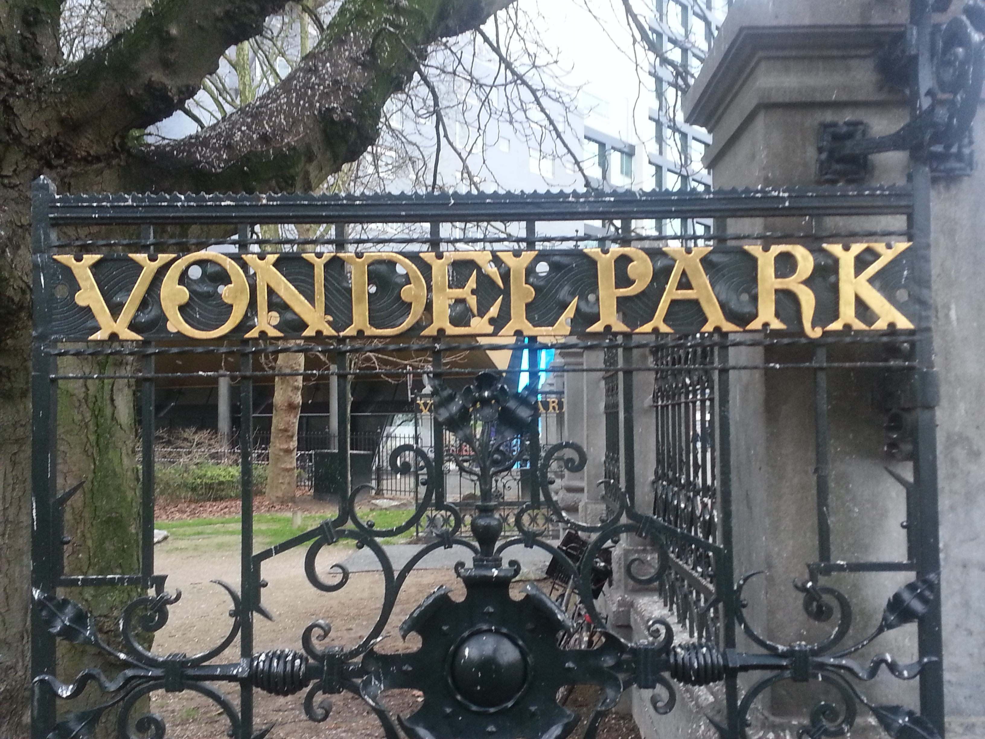 Vondelpark entrance name sign